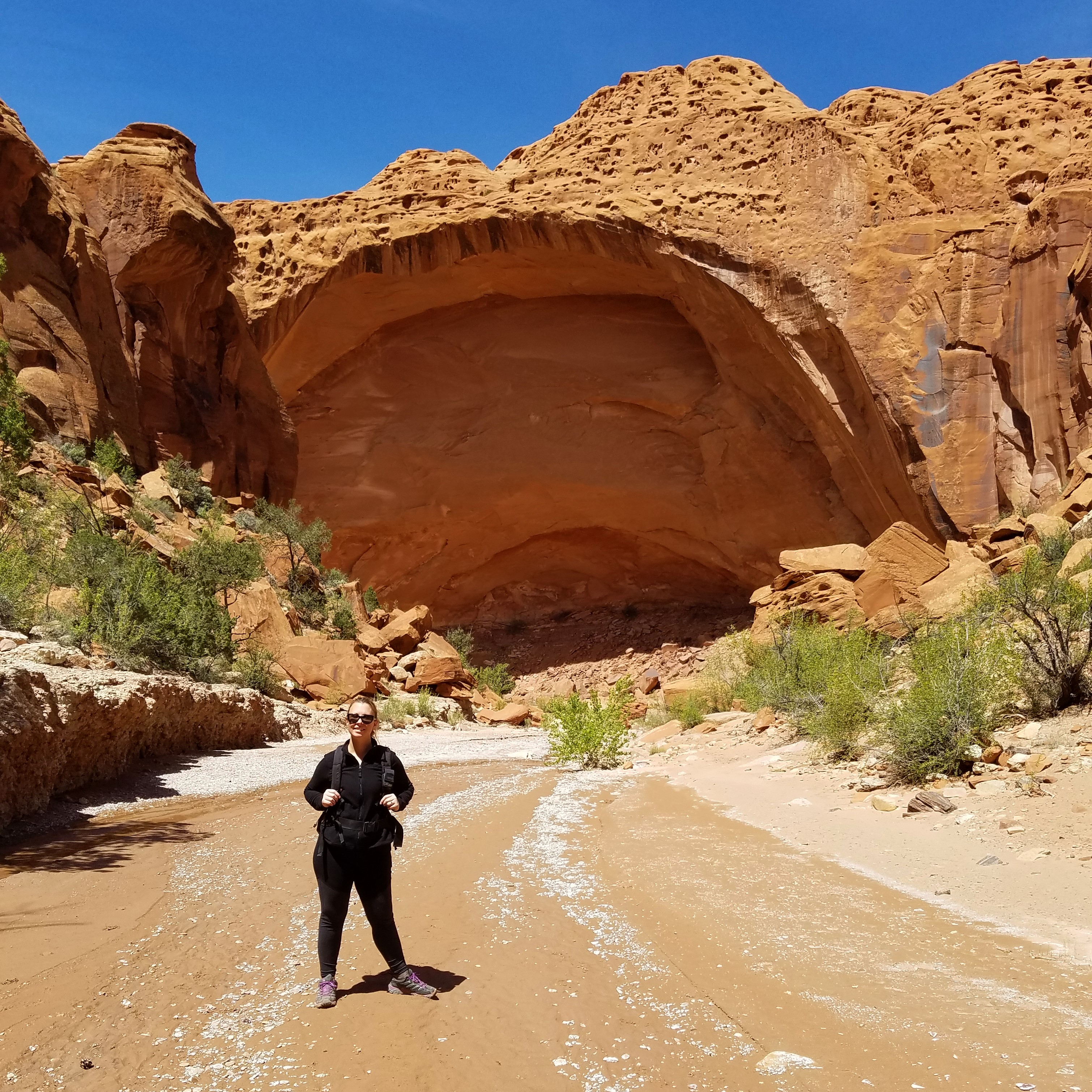 Hiking Wolverine Canyon in Escalante National Monument, Utah. Female Hiker (Stephanie) in Foreground - Golden Gate Natural Landmark in the background